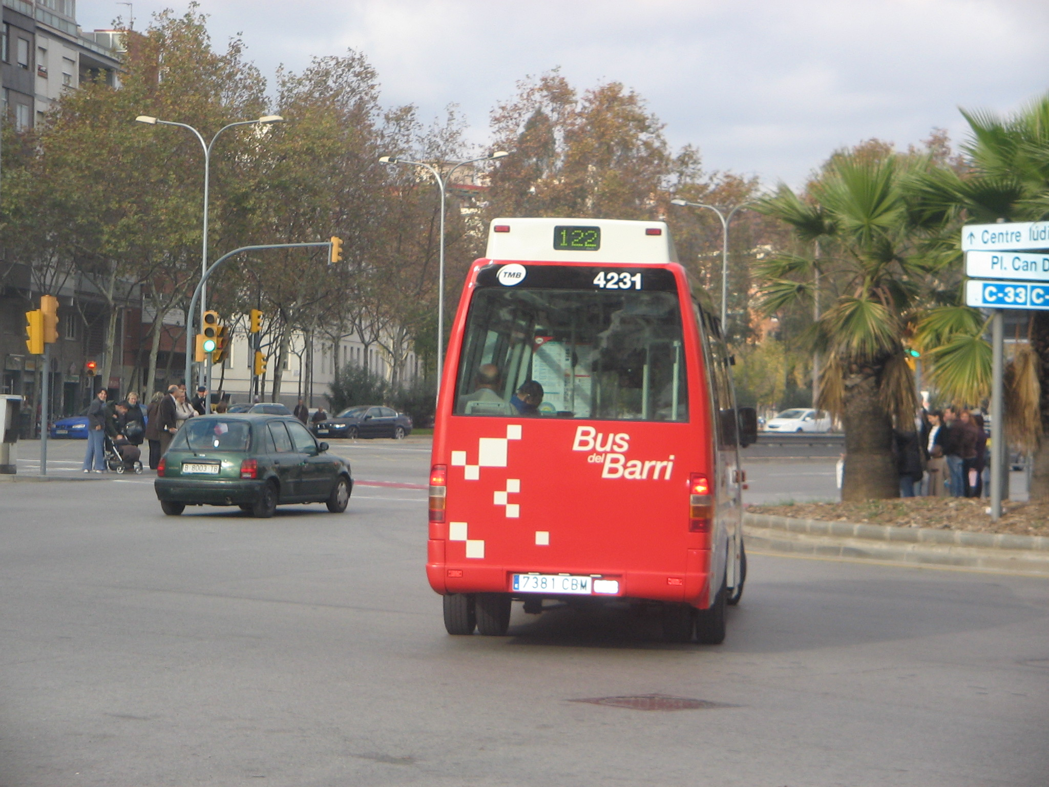 Bus of Barcelona